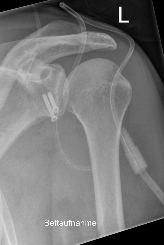 Osteosynthesis of fractured glenoid of left scapula.